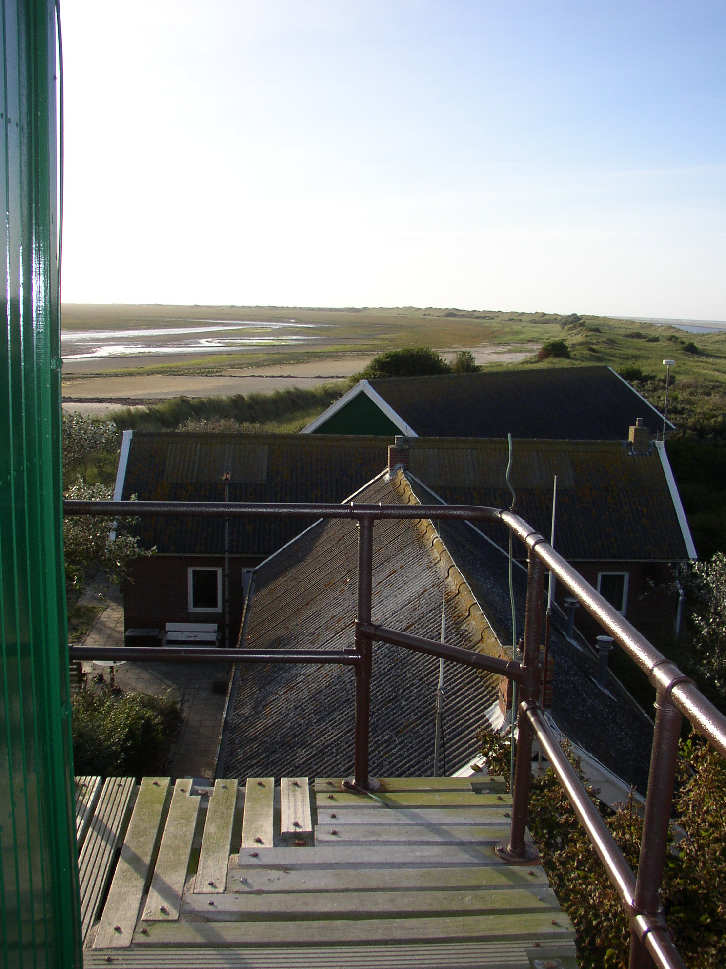 View on the Dutch Wadden-island "Rottumerplaat" from the obsevation tower on the island.